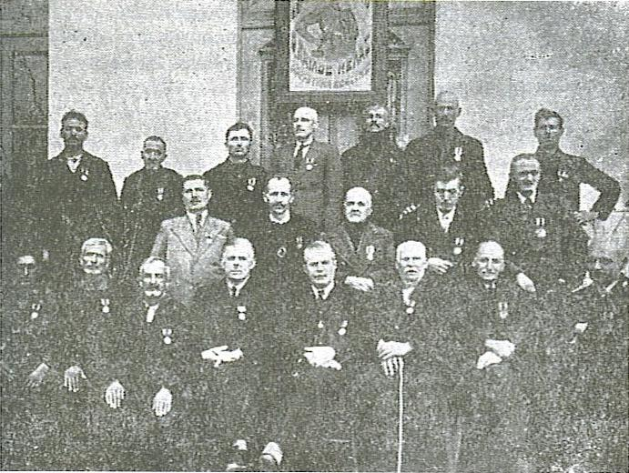 Greek andarts in Pela region